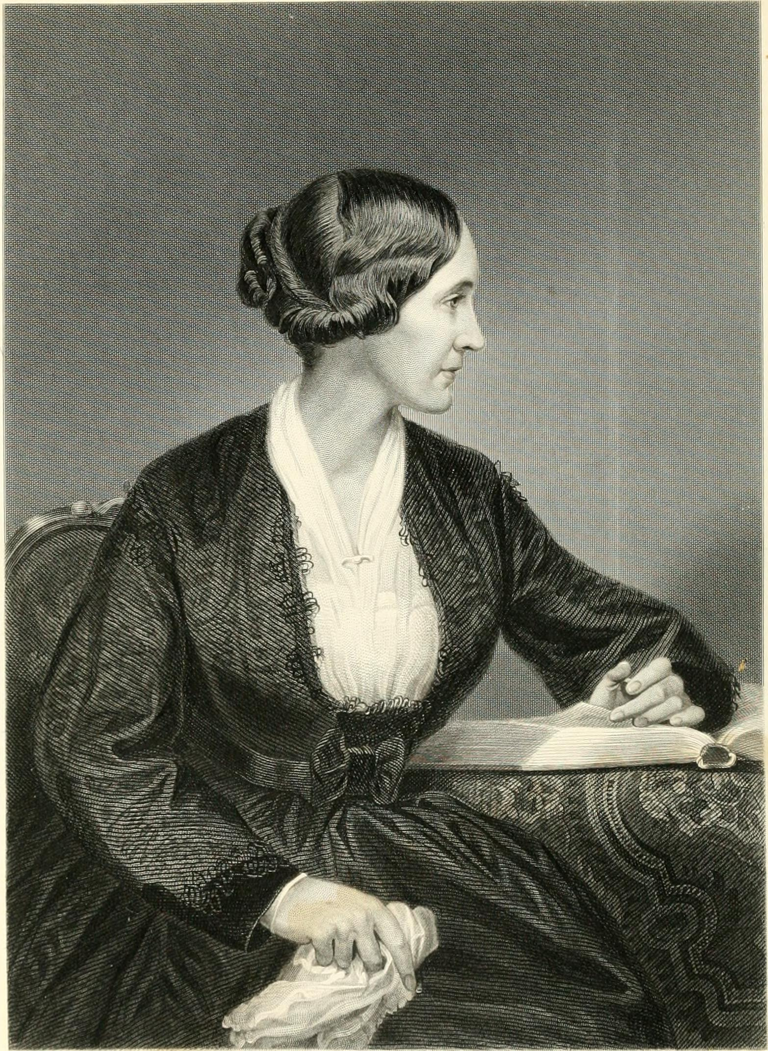 Title: Portrait gallery of eminent men and women of Europe and America. With biographies Year: 1872 (1870s) Authors: Duyckinck, Evert A. (Evert Augustus), 1816-1878 Subjects: Biography, Portraits Biography Portraits Publisher: New York : Johnson, Fry and company Text Appearing Before Image: e will from the Club-room, whichClyde, innocent of the great ofl^ence,adojated; and then turns ujDon the un-reflecting with a lesson of charity—that charity which he ever loved toinculcate. While engaged in theseliterary works, and busily employedupon a new serial story for TheCornhill, Thackeray, who had forseveral years suffered occasionally fromdisease, was suddenly called away, theimmediate cause of his death beiua- aneffusion on the brain. He had retiredto rest as usual, at his home in Lon-don, on the night of Christmas Eve,18G3, and was found at day, lyingwith life extinct, in an attitude of calmrepose. A few days afterwards hisremains Avere interred in the ruralKensal Green Cemetery, followed tothe grave by the chief men of lettersand artists of the metropolis, who lov-ed and admired the man. Among thenumber were Charles Dickens, Antho-ny Trollope, tlie poet Browning; and,with other artists, his life-long friendGeorge Cruikshank, and his later asso-ciate in Punch, John Leech. Text Appearing After Image: ALICE CARY